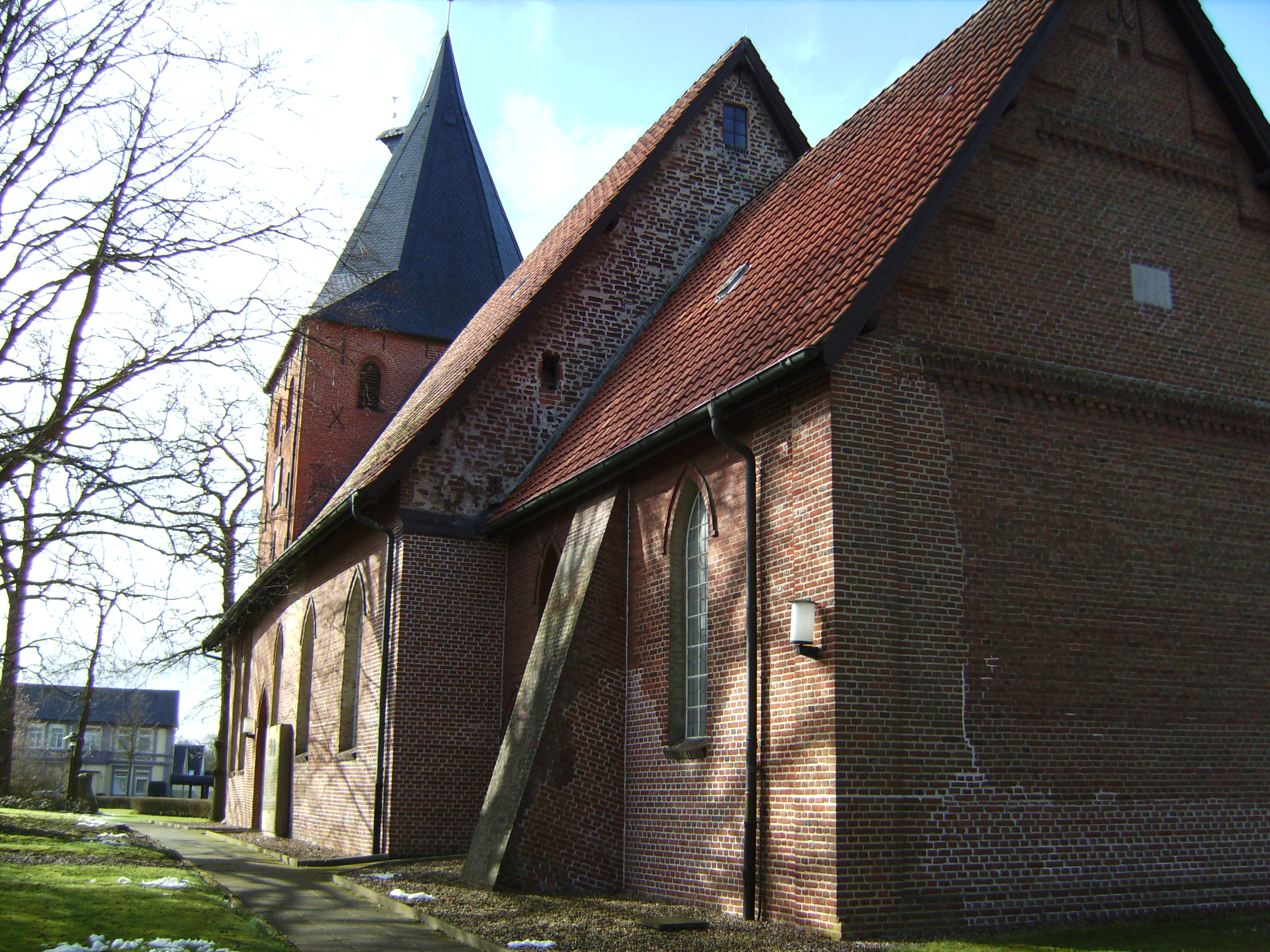 St. Marien in Neuenkirchen (Land Hadeln) / Germany, Lower Saxonia, from Southeast